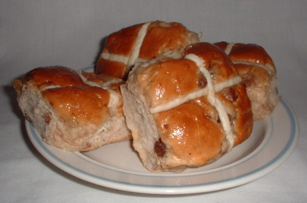 Hot cross buns. Note: these are square buns from a supermarket. Traditional home-made buns are round.